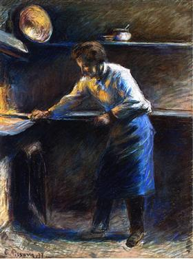 Work by Camille Pissarro